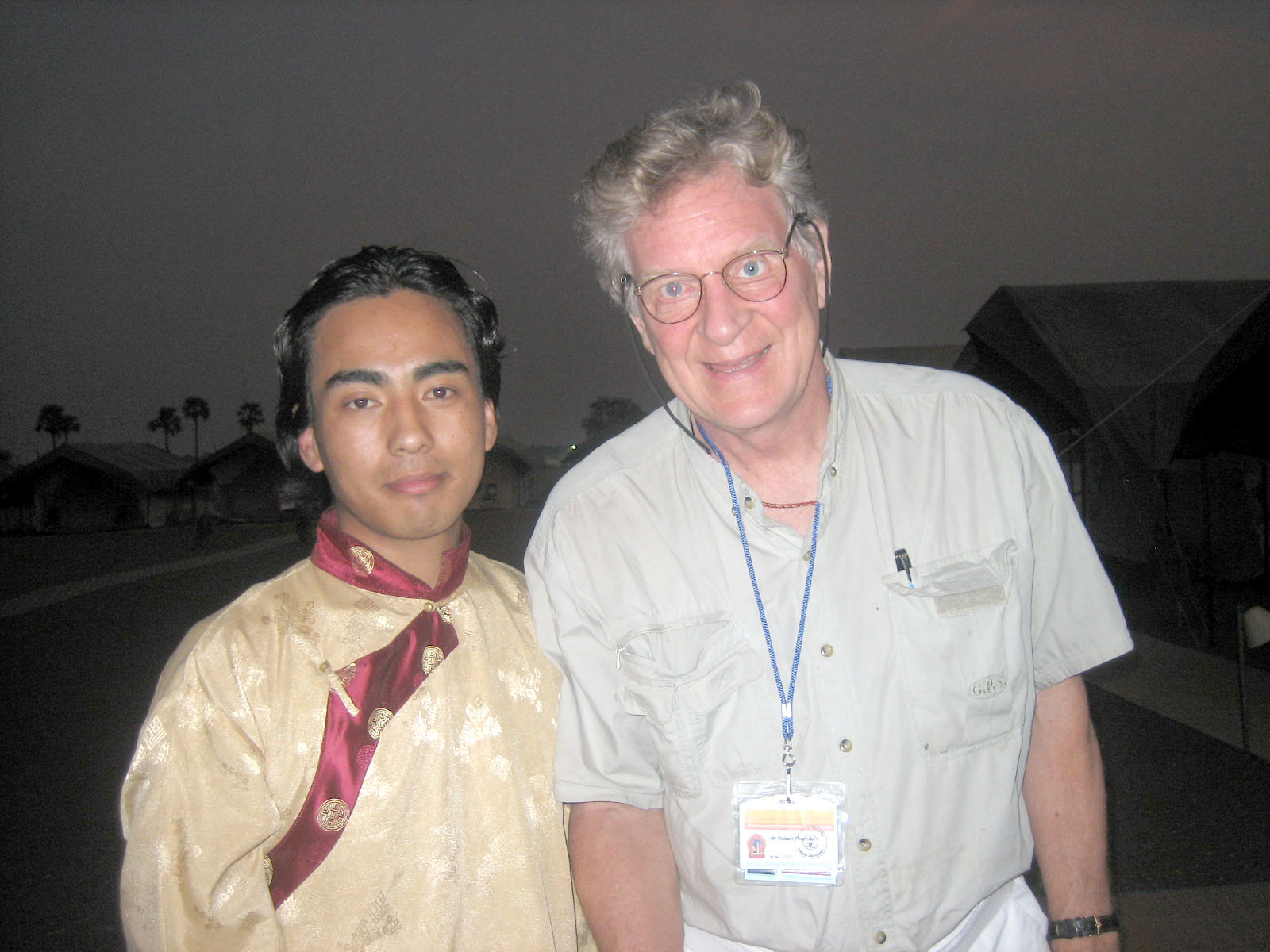 Robert Thurman (right)